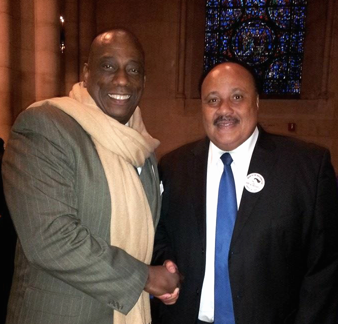 Opera star and activist Stacey Robinson (left) in 2014 with Martin Luther King III at The Riverside Church. The occasion was a music program to honor his father, Martin Luther King Jr. (Courtesy of photographer Mary Biggs; modifications (cropping, tone) by Tom Sulcer. Exact date is approximate.)